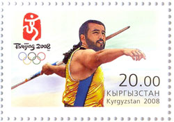 Stamp of Kyrgyzstan